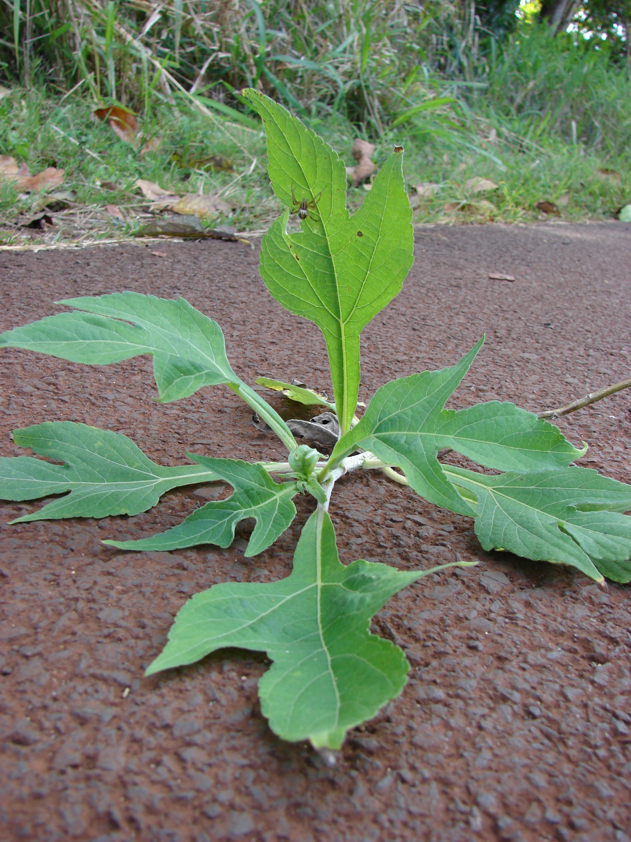 Tithonia diversifolia (seedling). Location: Lanai, Lanai City